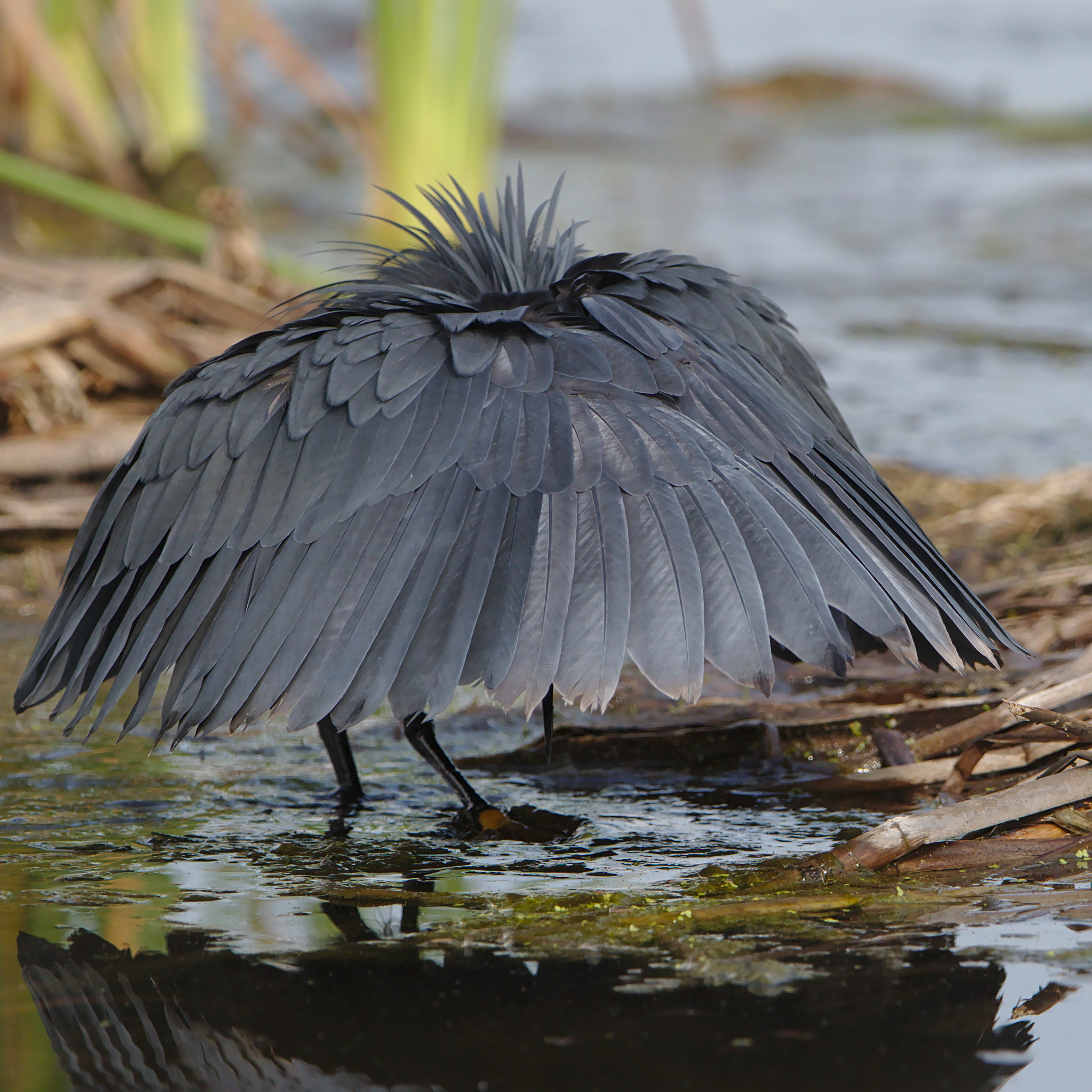 Black heron, Egretta ardesiaca, at Marievale Nature Reserve, Gauteng, South Africa.